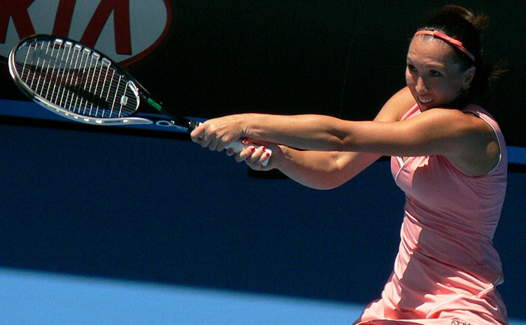 JJ on AO